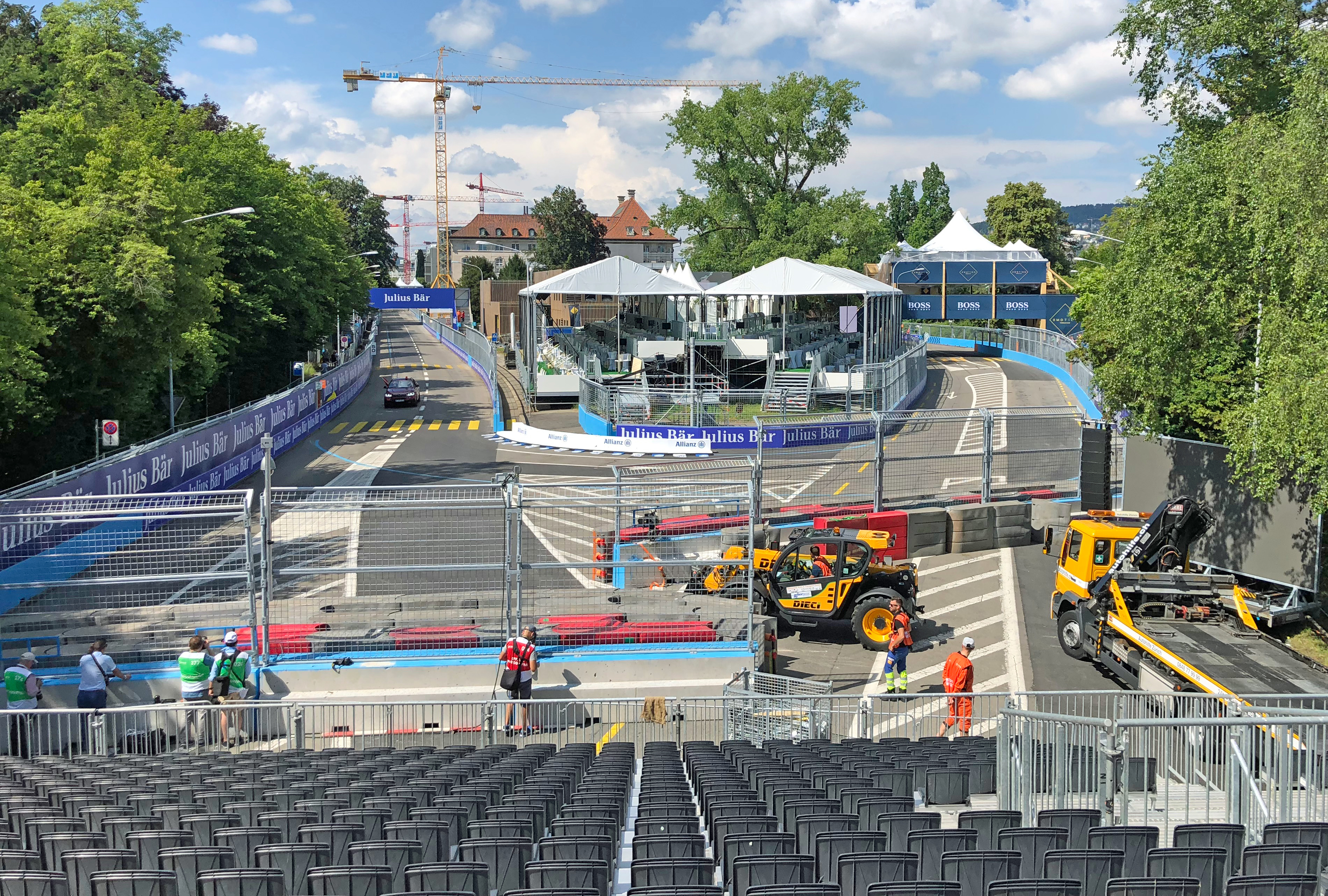 Zurich ePrix – switchback on Mythenquai just before the home strech. Picture taken on the day before the race.